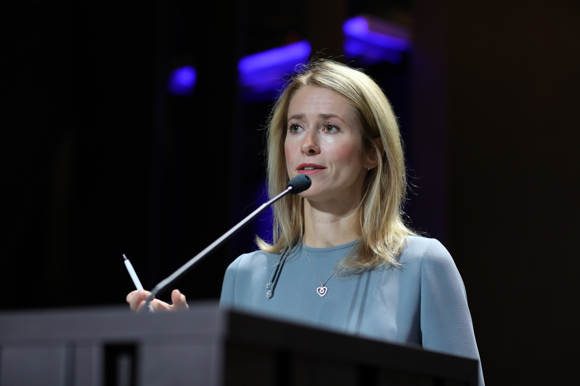 Kaja Kallas, Member of the European Parliament, Patron to Creative Business Cup Estonia Photo: Egert Kamenik (EU2017EE)